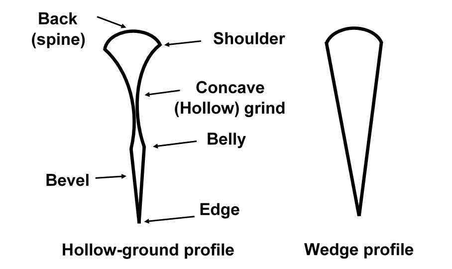 Please see filename. Also compare with this real razor photo.